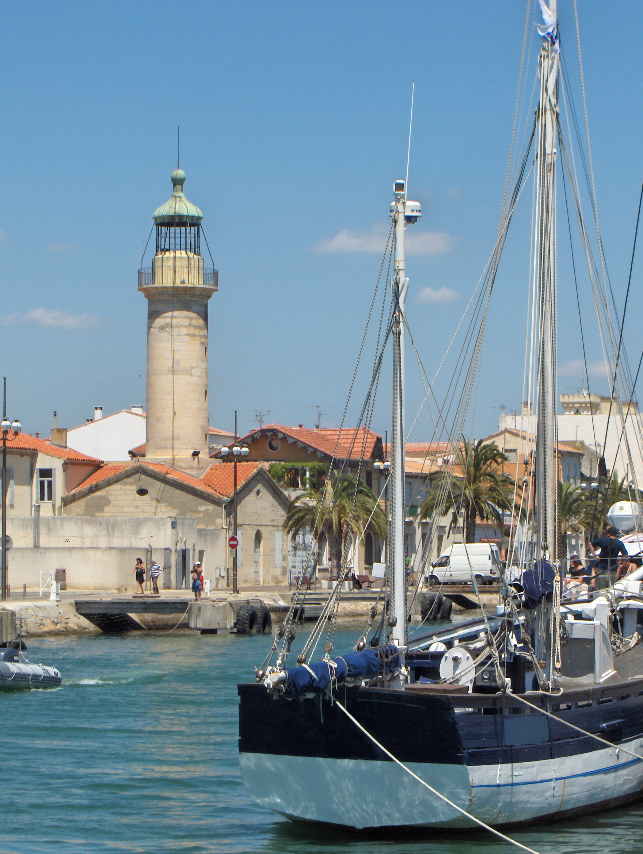 The Old Lighthouse (Vieux Phare) in Le Grau-du-Roi (France)